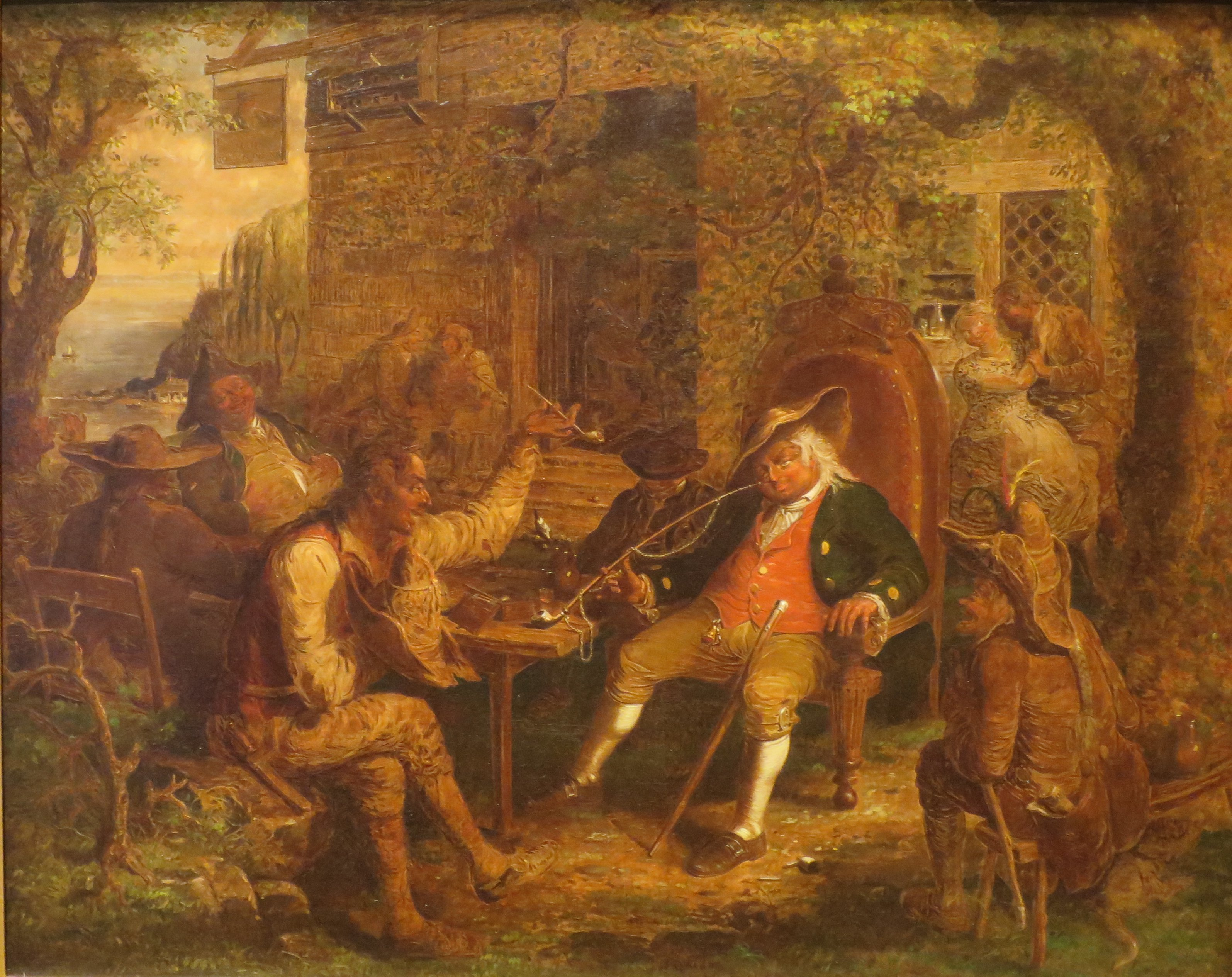 Wolfert Webber at the Inn (Wolfert Webber's Golden Dream), oil on canvas painting by John Quidor, 1857, High Museum of Art